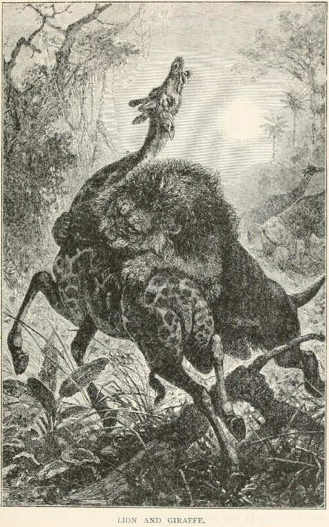 Illustration 'Lion and Giraffe' by Henry Scherren FZS (1842-1911) in his Popular History of Animals for Young People, Cassell, 1895.